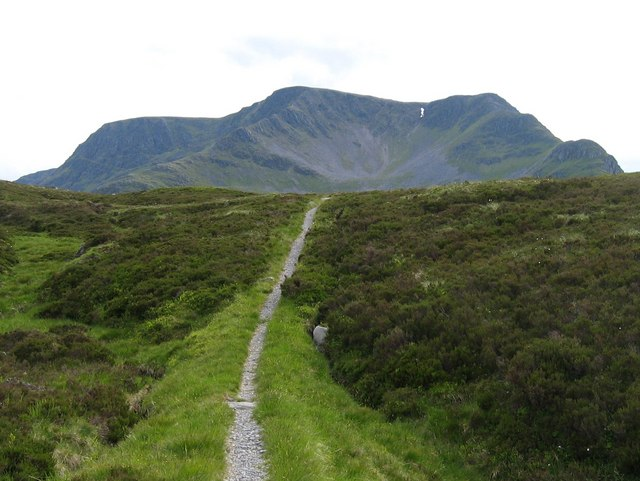 Ben Alder. Taken from the path leading into Loch a Bealach Beithe. This image shows Ben Alder's Coire nan Lethchois with the Short and Long Leachas running up each side.